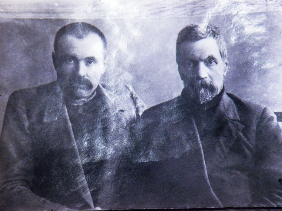 Ivan Pyanykh-senior (left), Russian peasant, socialist-revolunioner, a member of the Second Russian State Duma from Kursk Governorate in 1907 and his son Ivan (right) after Schlisselburg prison